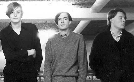 Danish postpunk band Escape Artists in 1983. L-R: Søren Laugesen, Torben Johansen, Benny Woitowitz.